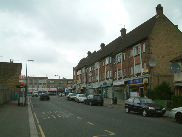 Local shops, Enfield Highway. Looking west along Green Street to the junction with Hertford Road